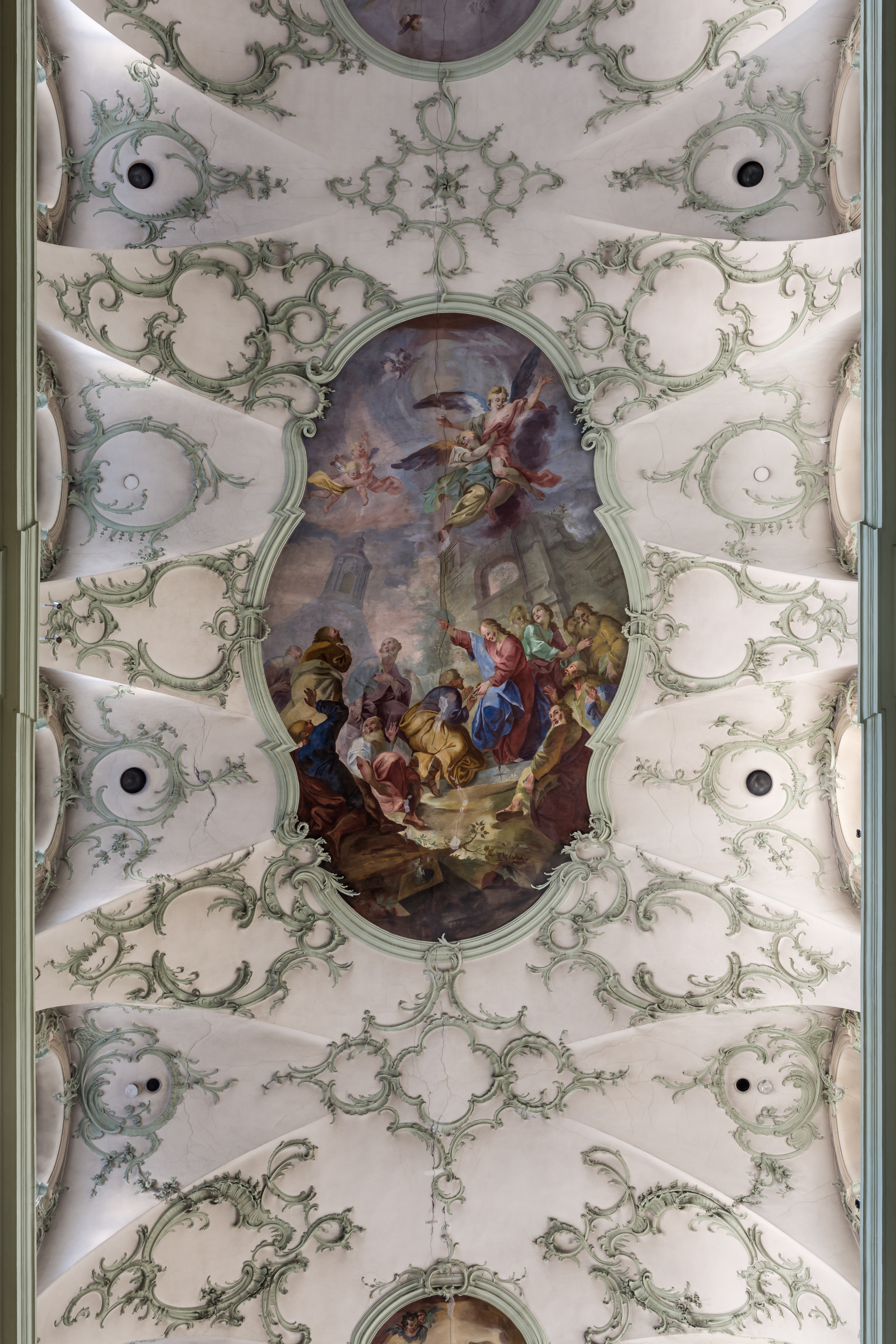 Vault of St. Peter's Abbey Church in Salzburg, federal state of Salzburg, Austria. Ceiling fresco by Johann Weiß (1764): Christ handing the keys to St. Peter